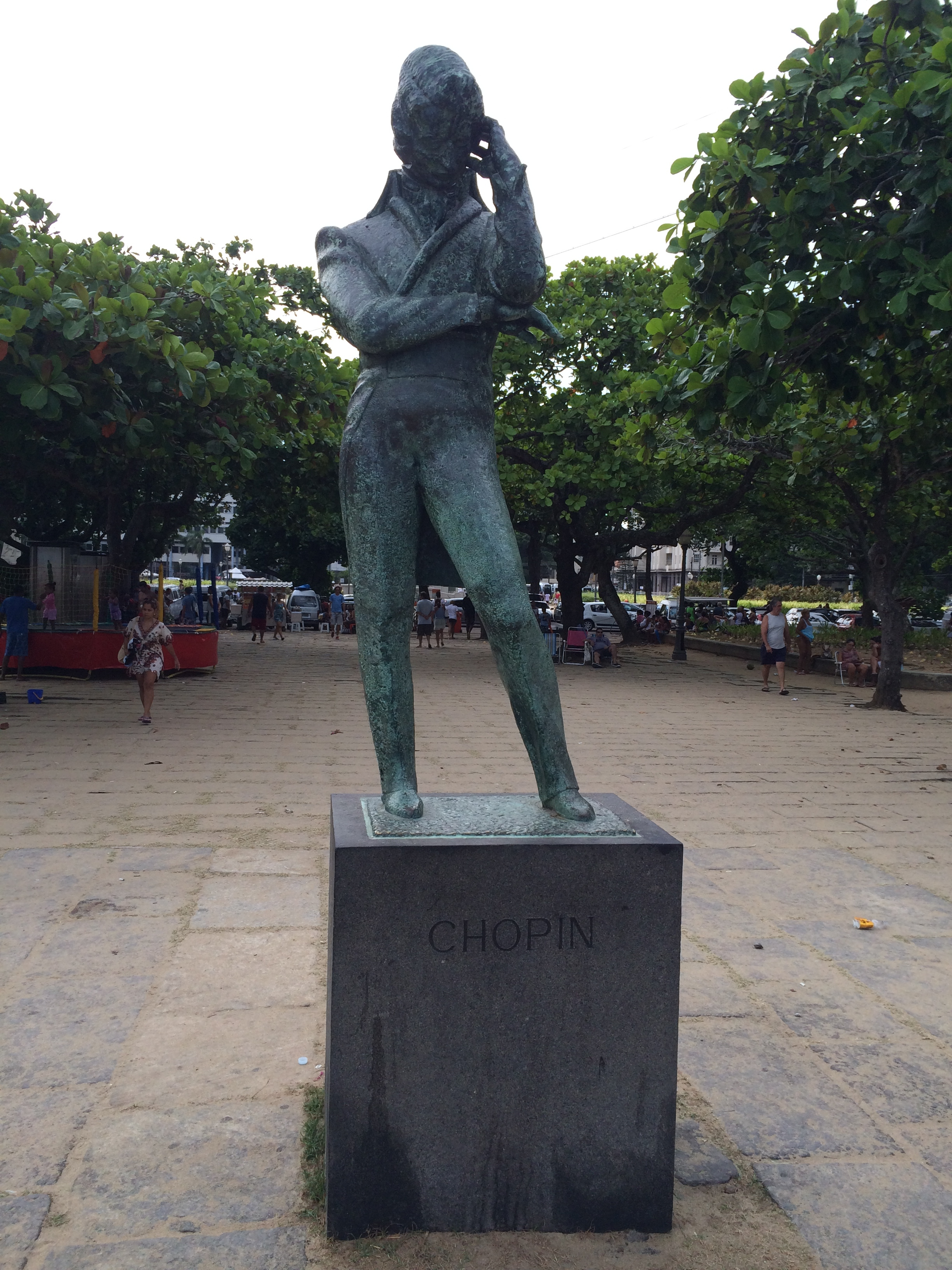 Chopin - RJ